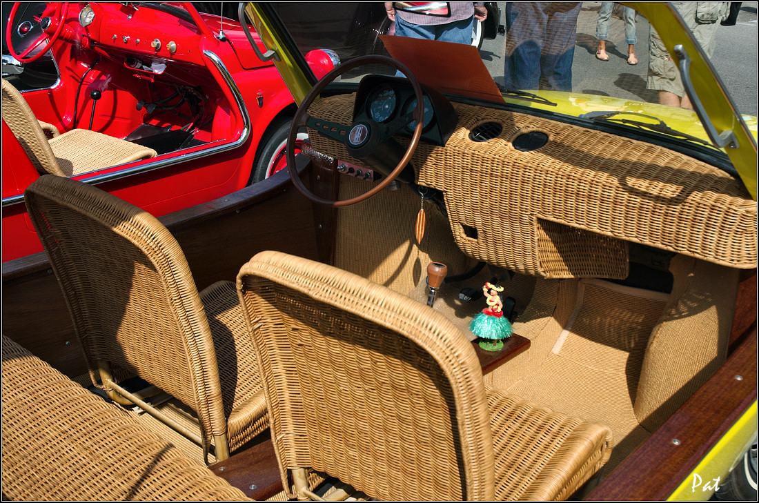 Michelotti Shellette on mechanical Fiat 850